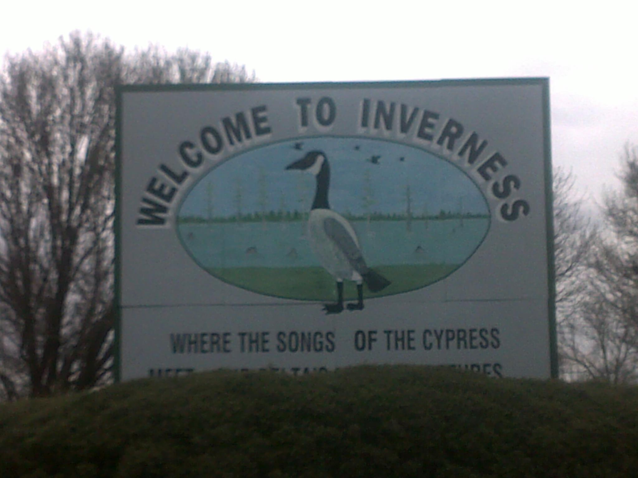 Sign along US 49W welcoming visitors to the town